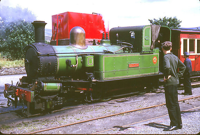 IoM #11 Maitland at St John's en route to Peel.